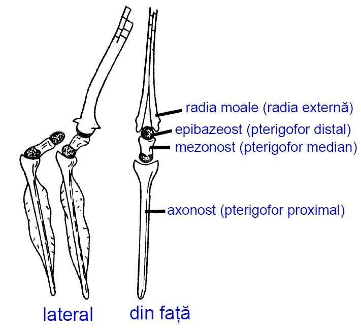 Dorsal fin pterygiophore